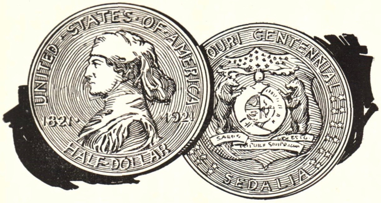 Portion of advertisement for Missouri Centennial half dollar showing unused design.